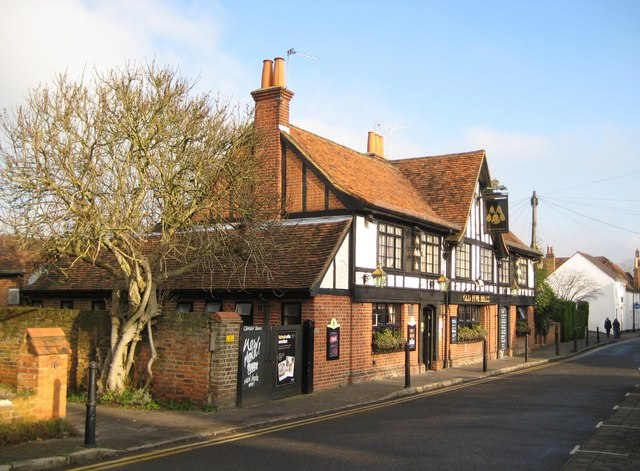 Burnham: Old Five Bells, near to Burnham, Buckinghamshire, Great Britain. The Old Five Bells is in Church Street opposite the church.